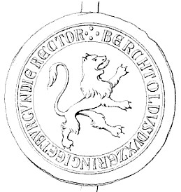 Seal of Berthold IV, Duke of Zähringen (r. 1152–1186) [sic, Berthold IV, in spite of the filename]. Based on drawings of a seal attested in documents dated 1157, 1169 and 1179 at Altenriff (Hauterive) Abbey. The original seal impressions were not available to Zell in 1858 and have apparently been lost. Perserved original seals of both Berthold IV and Berthold V are of the equestrian type, a seal of 1187 (Berthold V) shows a heraldic eagle on the horseman's shield.